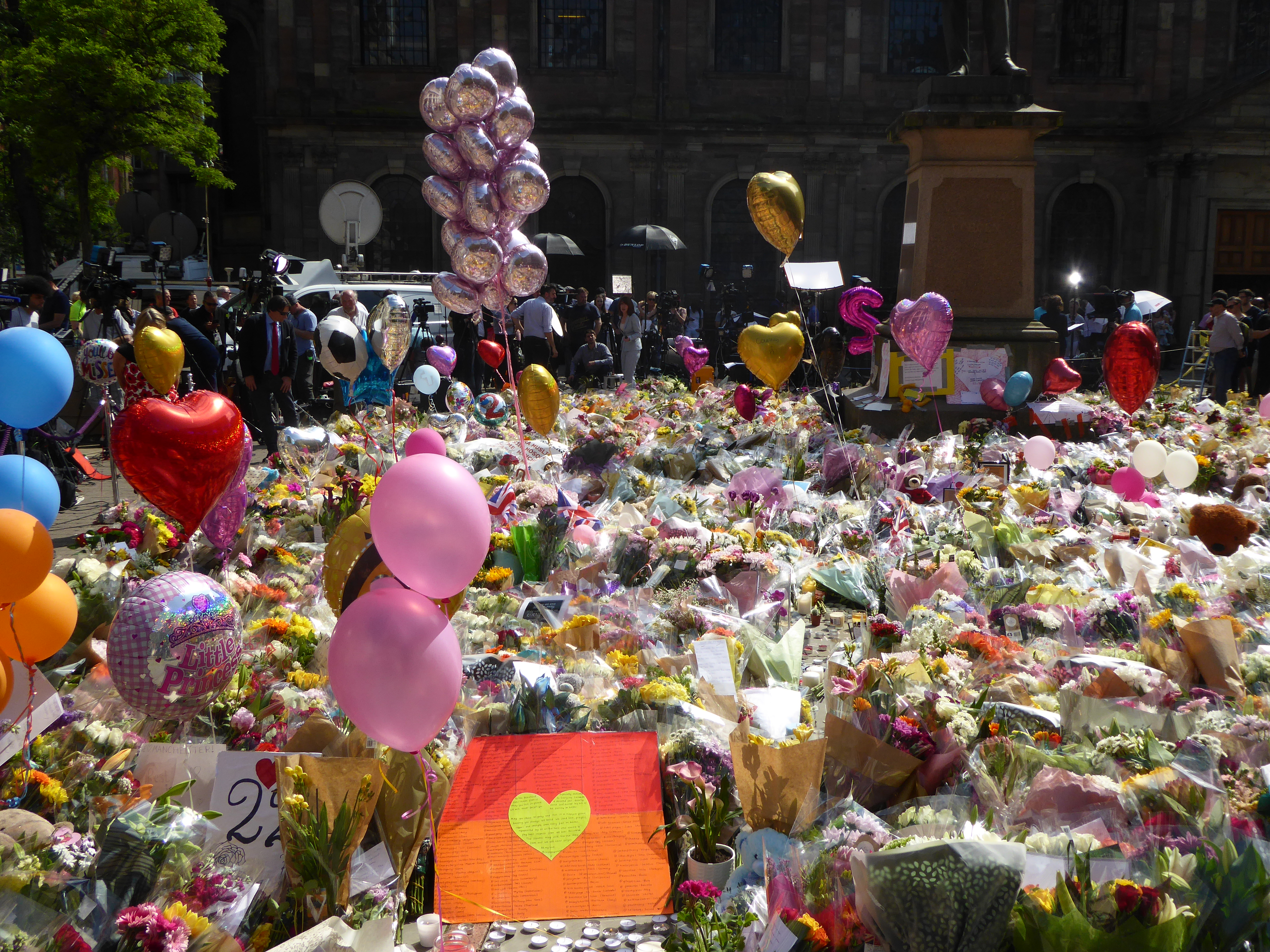 Tributes and memorials at St Ann's Square,Manchester, England, re Manchester Arena bombing, May 2017